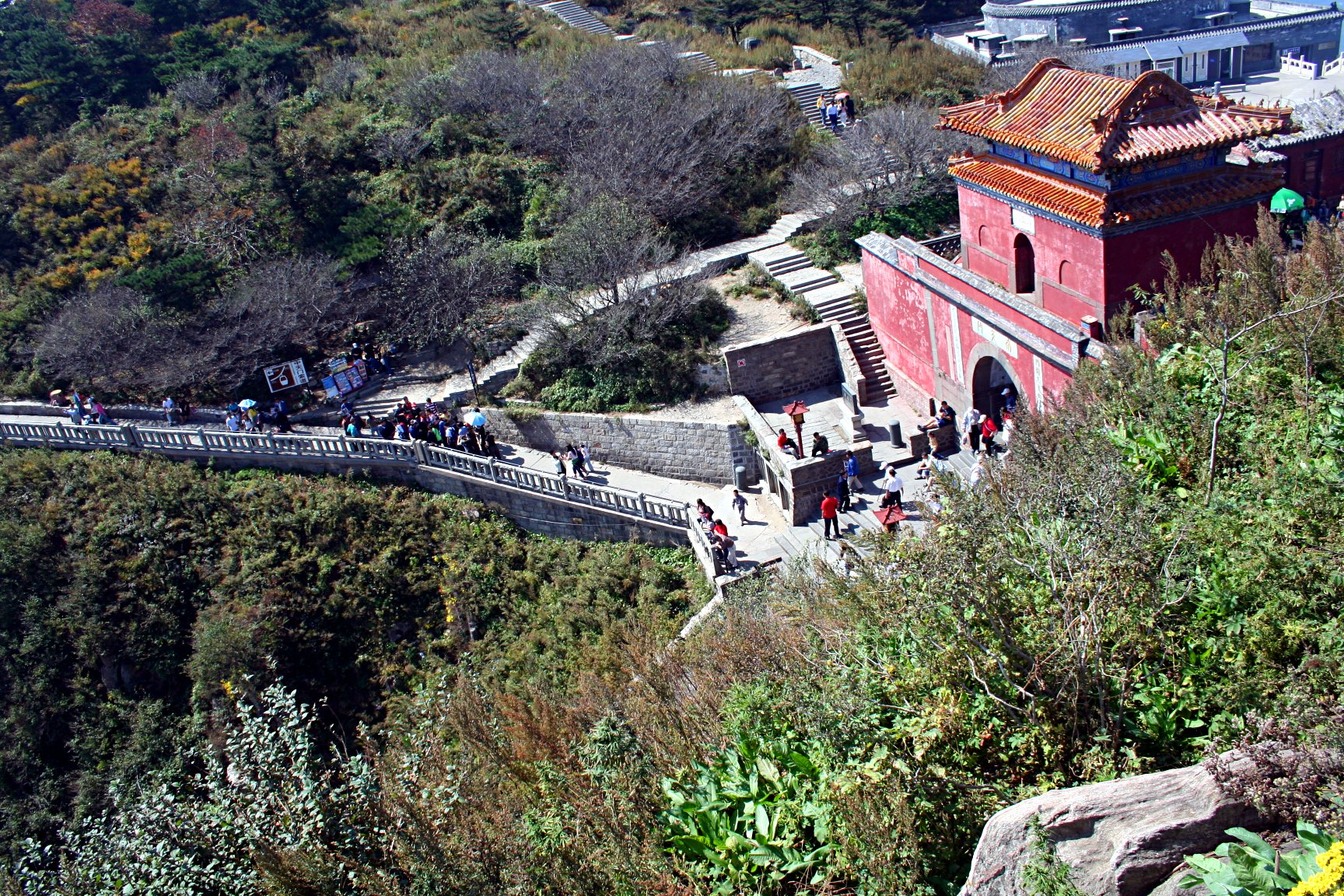 Photograph of "South Gate to Heaven" on Mount Tai, Shandong Province, China